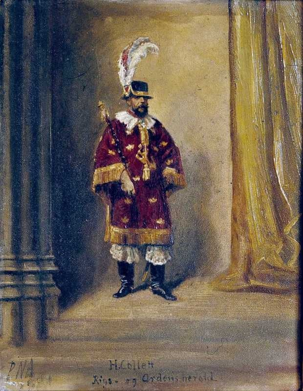 Portrait of Holger Collett.